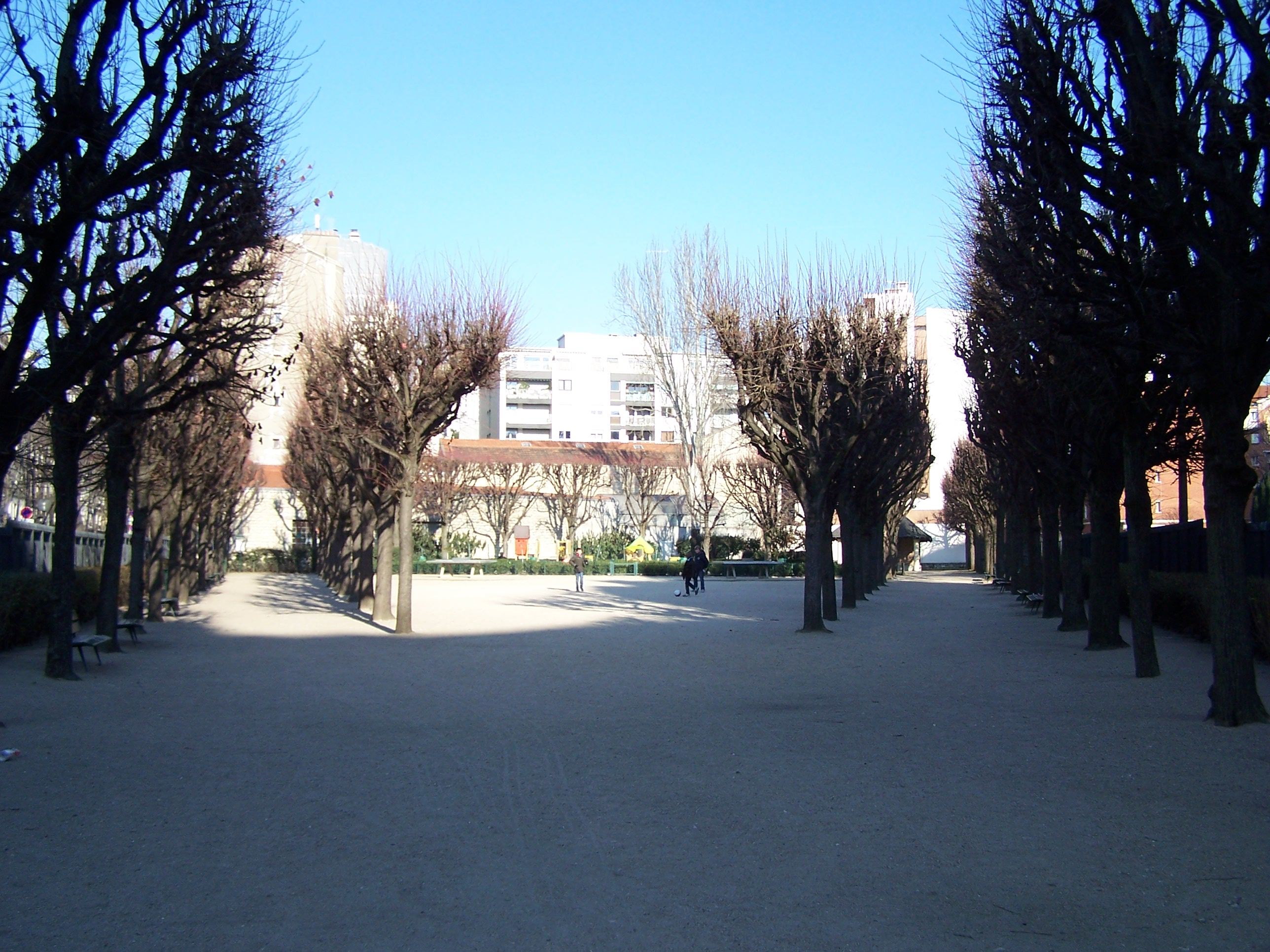 Vue de l'entrée du square Paul-Grimault depuis la rue de la Fontaine-à-Mulard